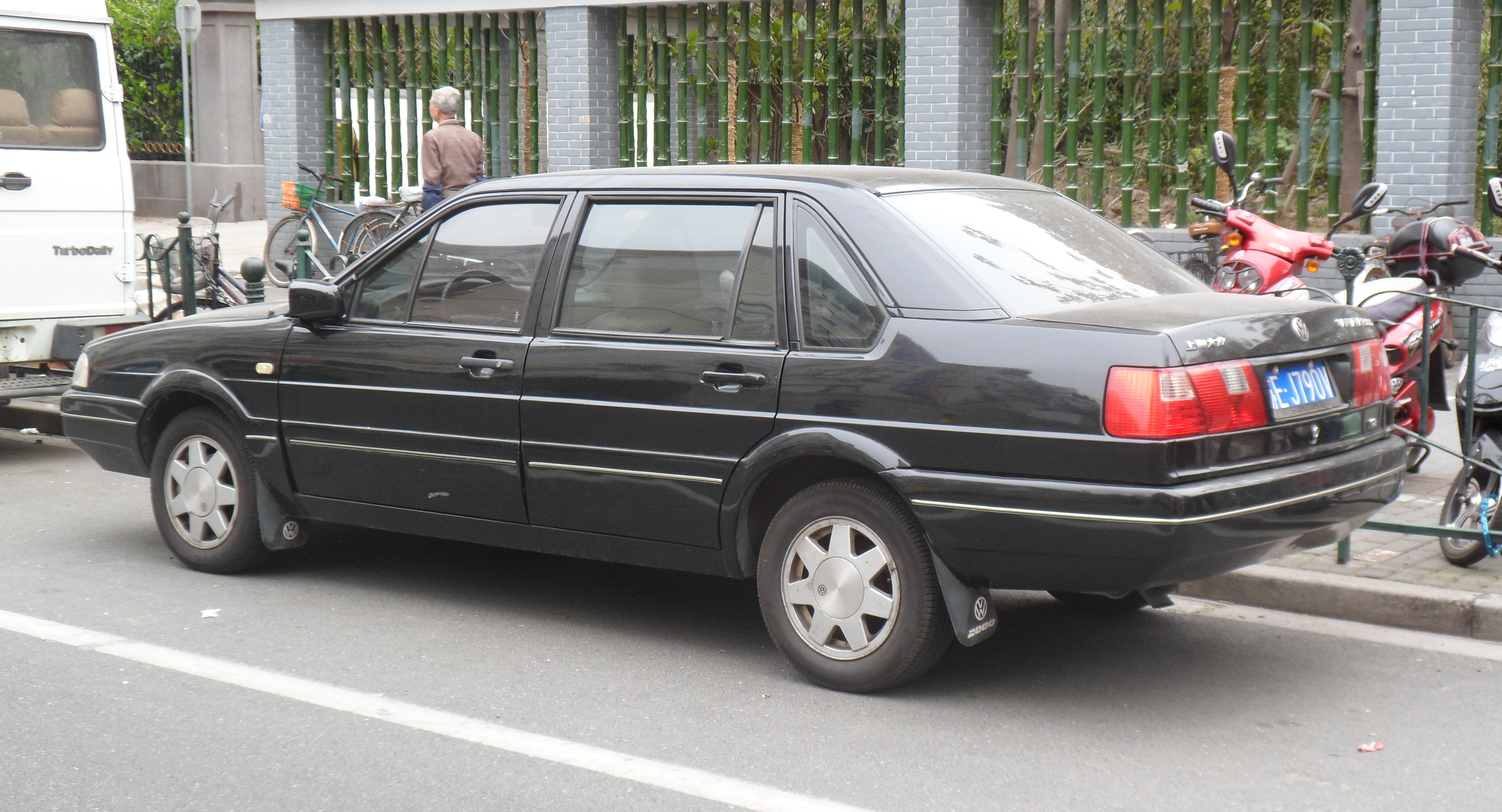 Volkswagen Santana 2000 photographed in Shanghai, China.